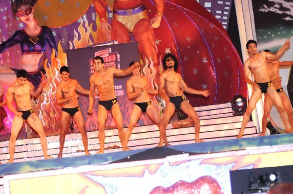 Gladrags Manhunt Swimwear round